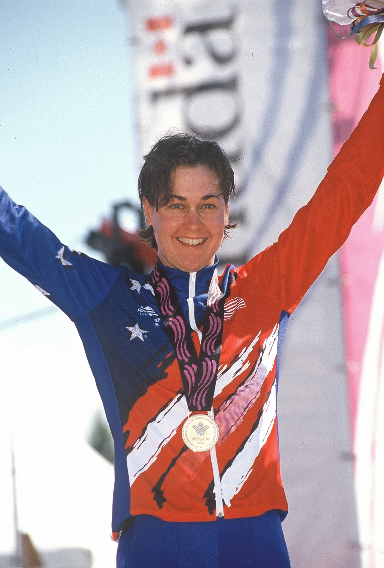 This is a photograph of Karen Dunne after having received the Gold Medal for winning the Women's Road Race. The medal is around her neck and her arms are raised in victory.